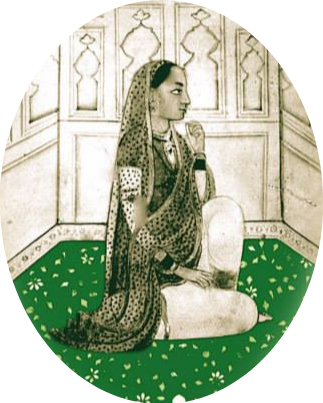 This is a miniature painting of (Emperor of the Sikhs) Maharaja Ranjit Singh's queen, Moran Sarkar. It is most probably from the Kangra school of miniature painting.